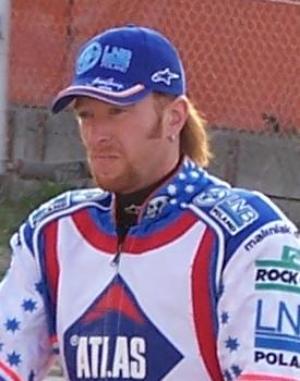 Jason Crump, żużlowiec (speedway rider)